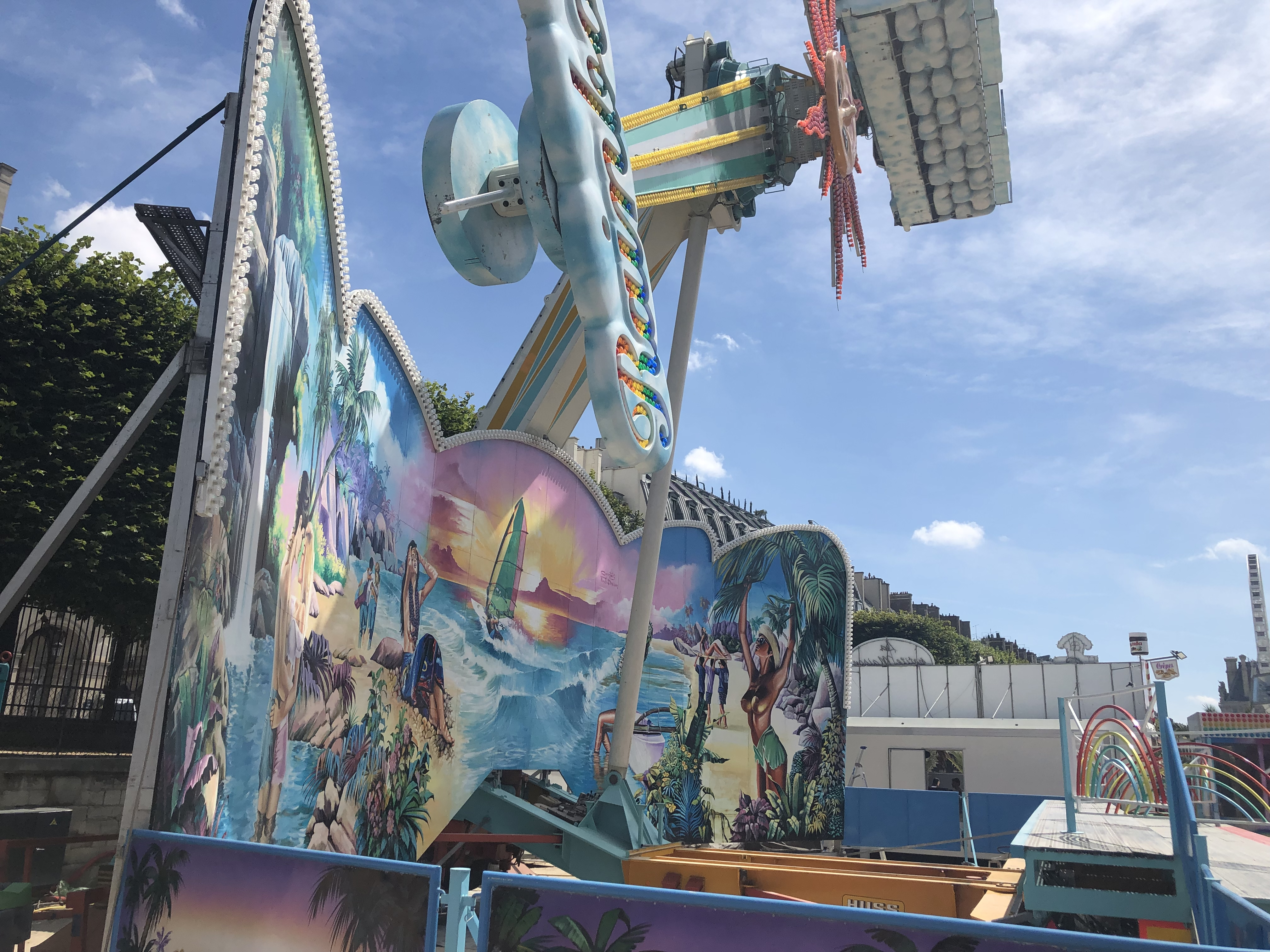 Rainbow ride #13 in operation at the 2019 Fête Des Tuileries in Paris, France.